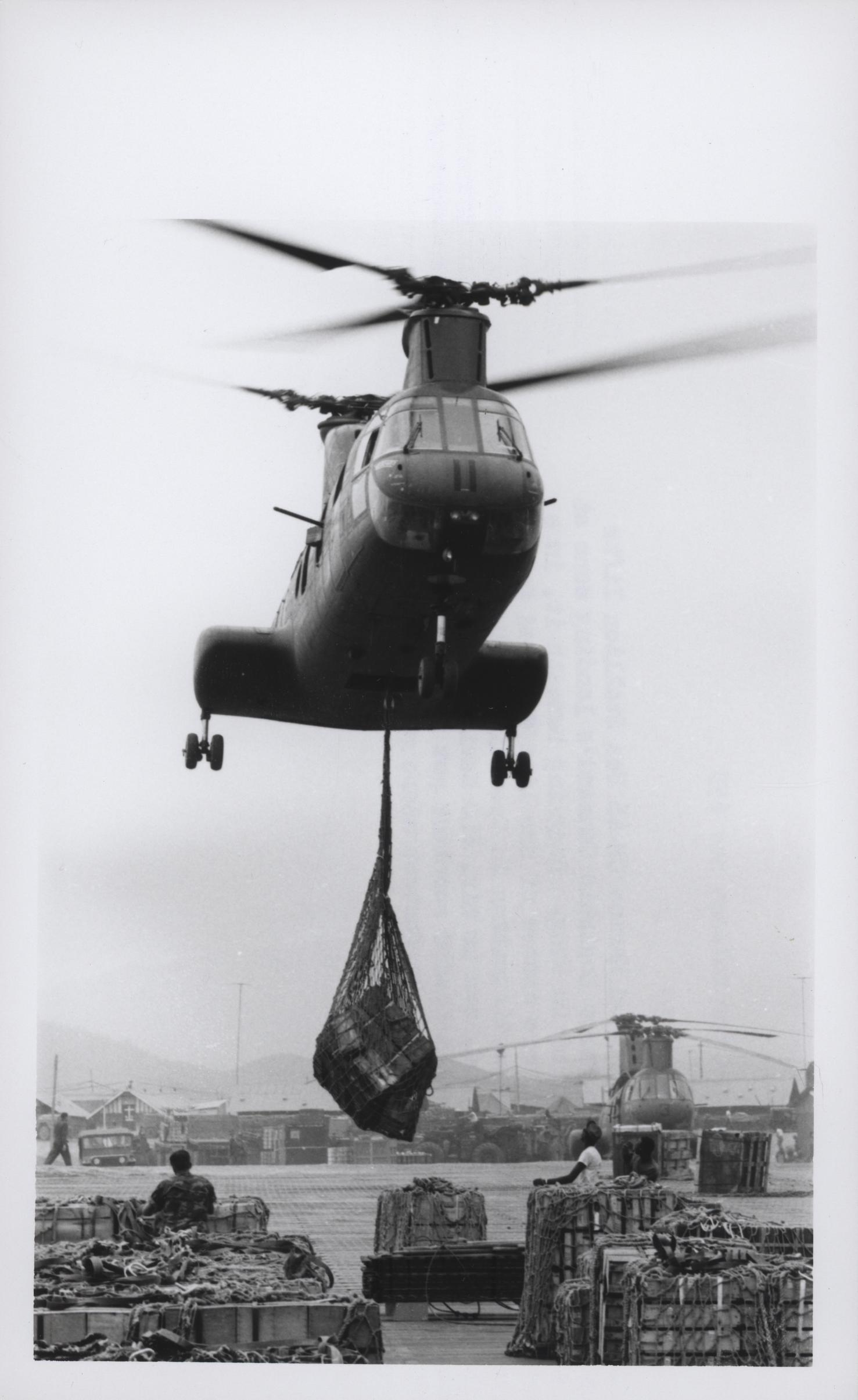 "Up, Up, and Away: A Marine CH-46 Stallion lifts off from the Force Logistic Command’s landing zone at An Hoa, south of Da Nang. Dangling beneath it, in a combat sling, are crates of supplies destined for Leathernecks participating in Operation Taylor Common. Whether by land, sea, or air, FLC Marines take pride in the fact that needed supplies get to the troops who need them, by the fastest means possible (official USMC photo)." From the Jonathan Abel Collection (COLL/3611), Marine Corps Archives & Special Collections. OFFICIAL USMC PHOTOGRAPH